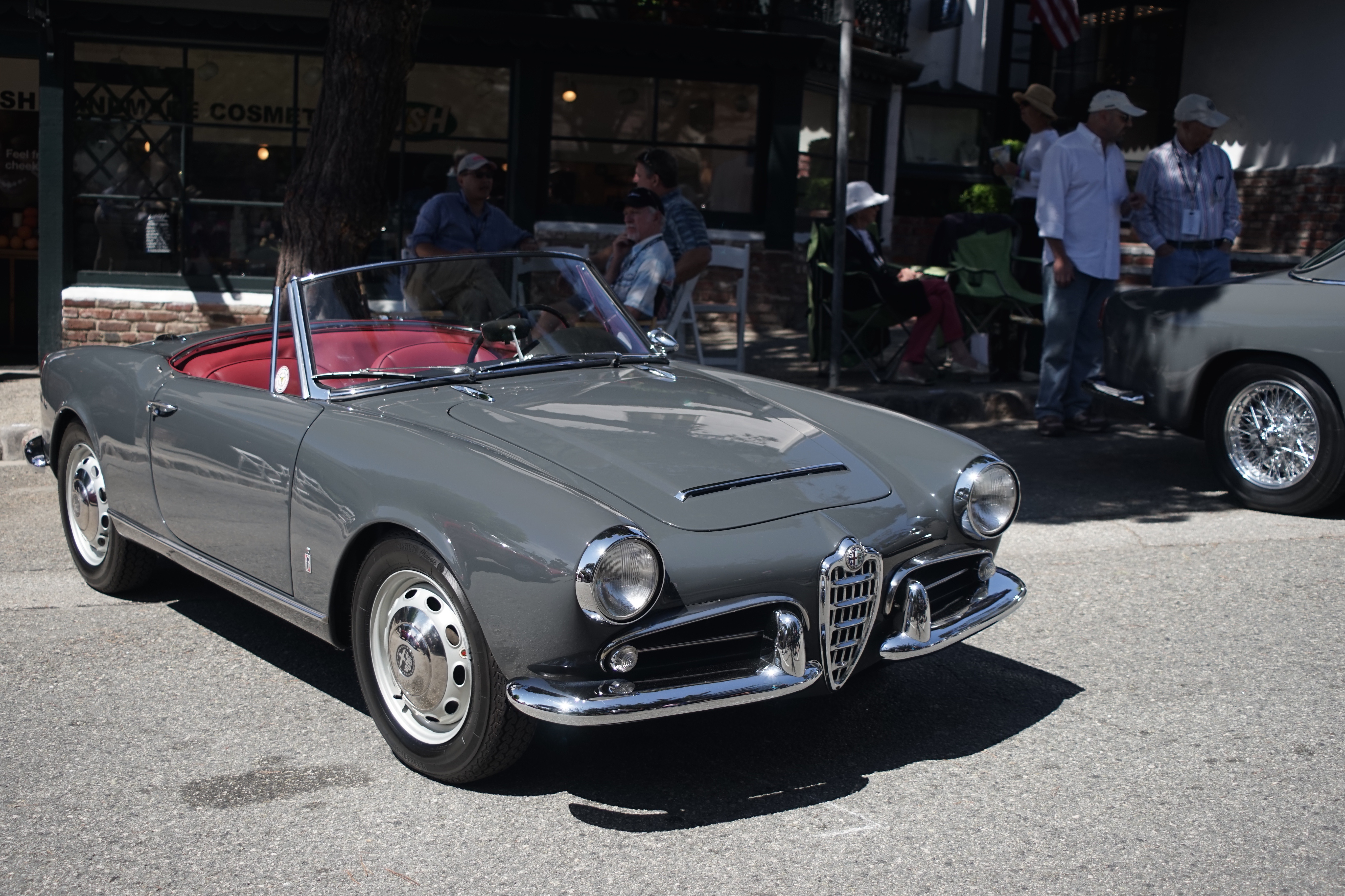 Photographed at Carmel Concours on the Avenue 2015.